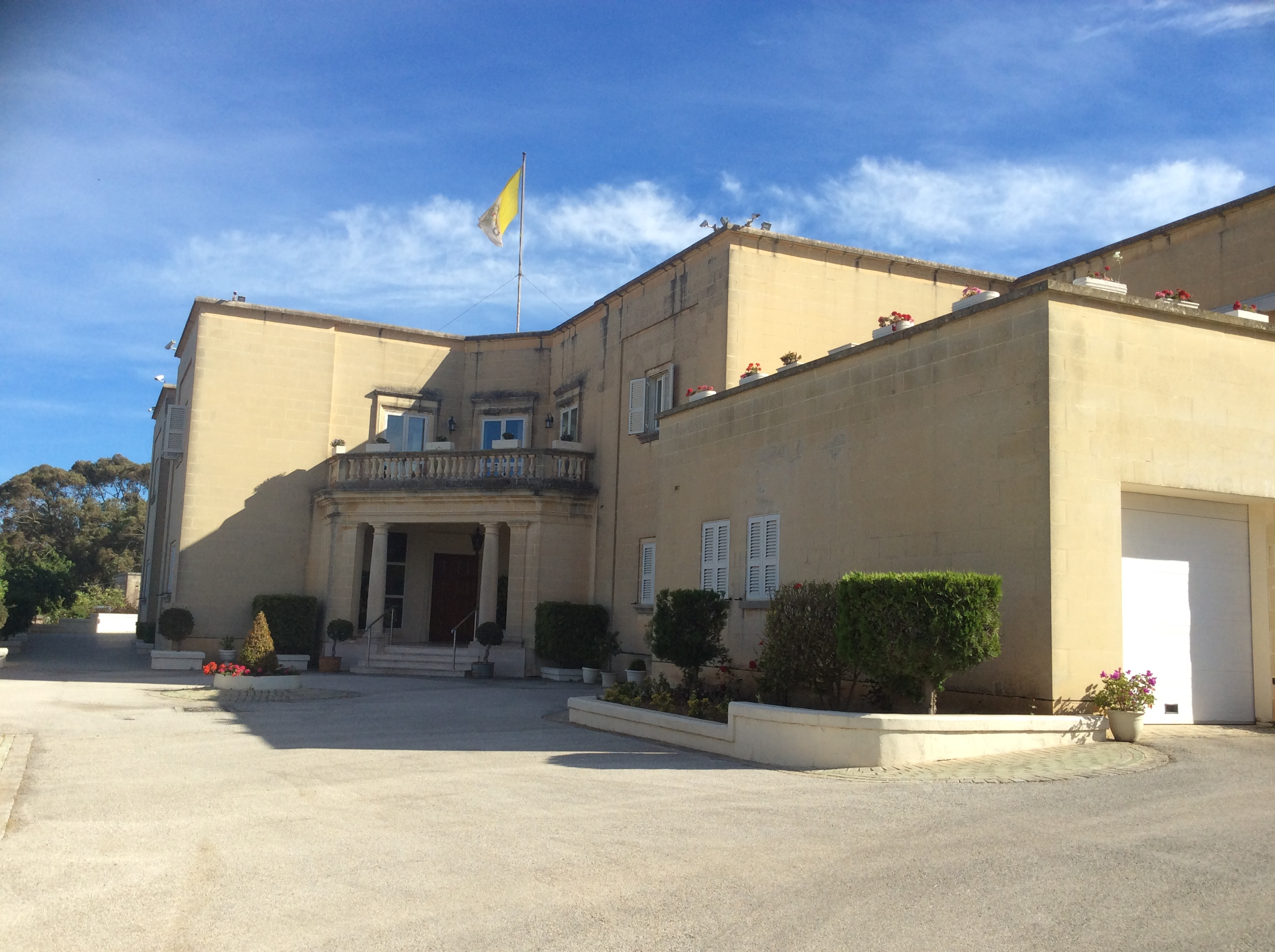 Rabat walk 2017